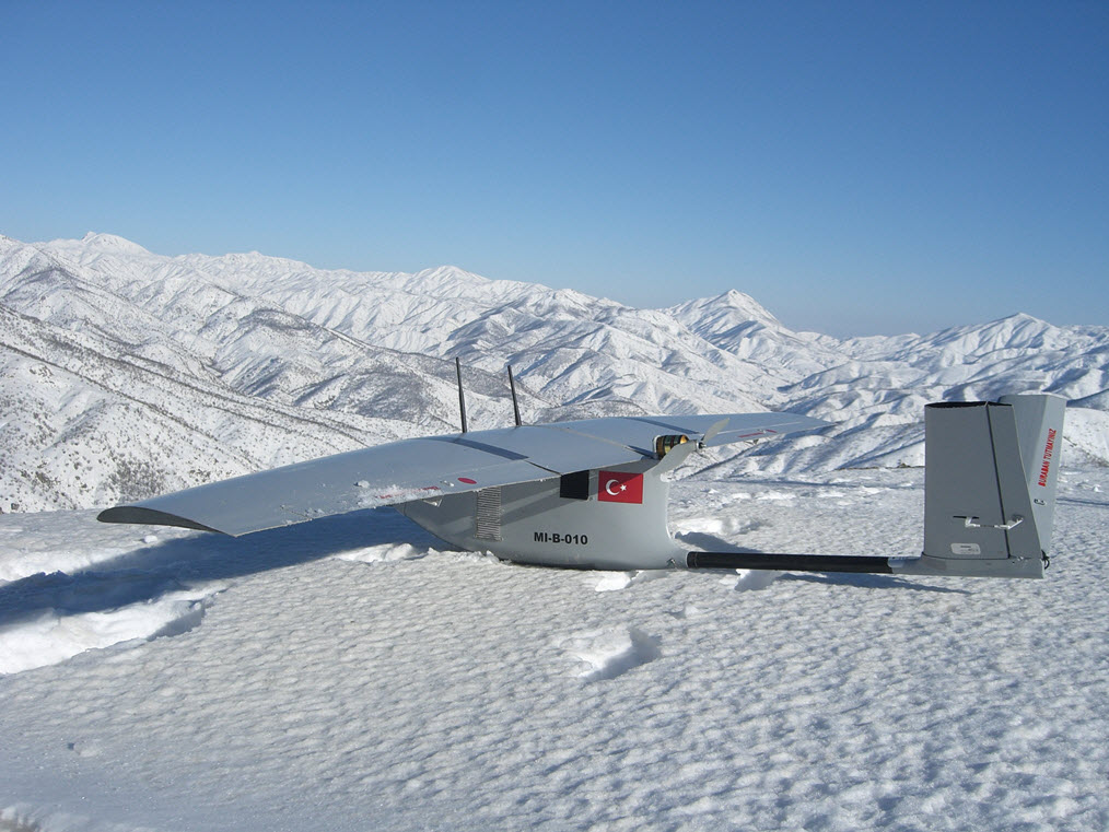 Bayraktar Mini iha zorlu şartlar